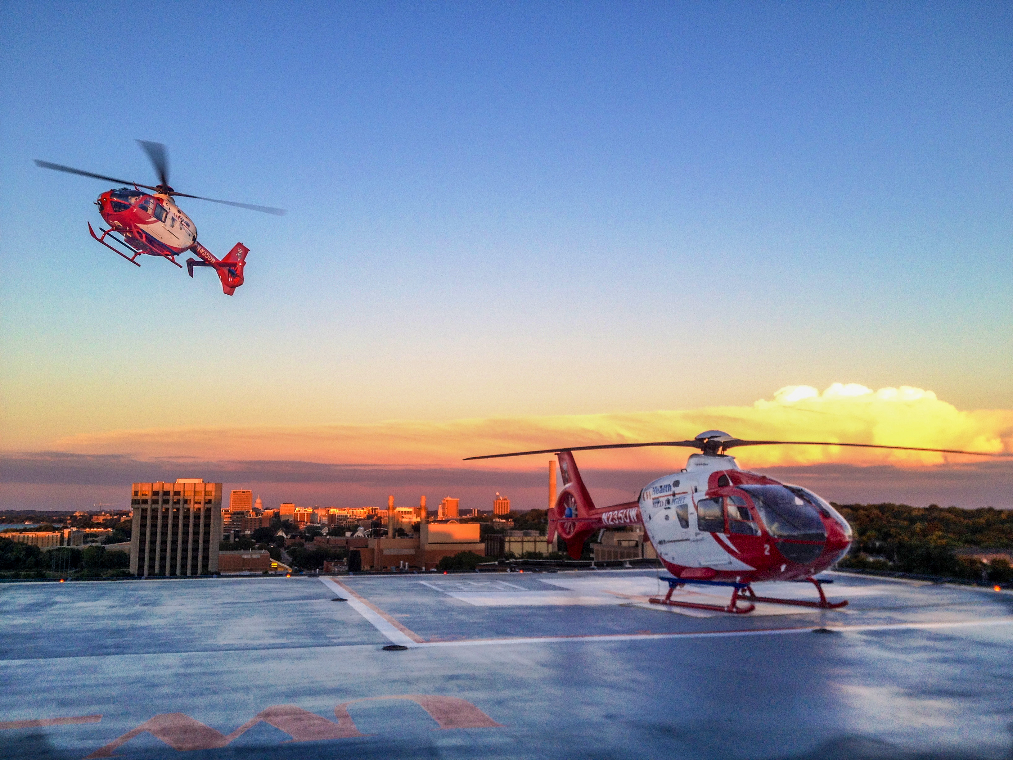 uwmeds